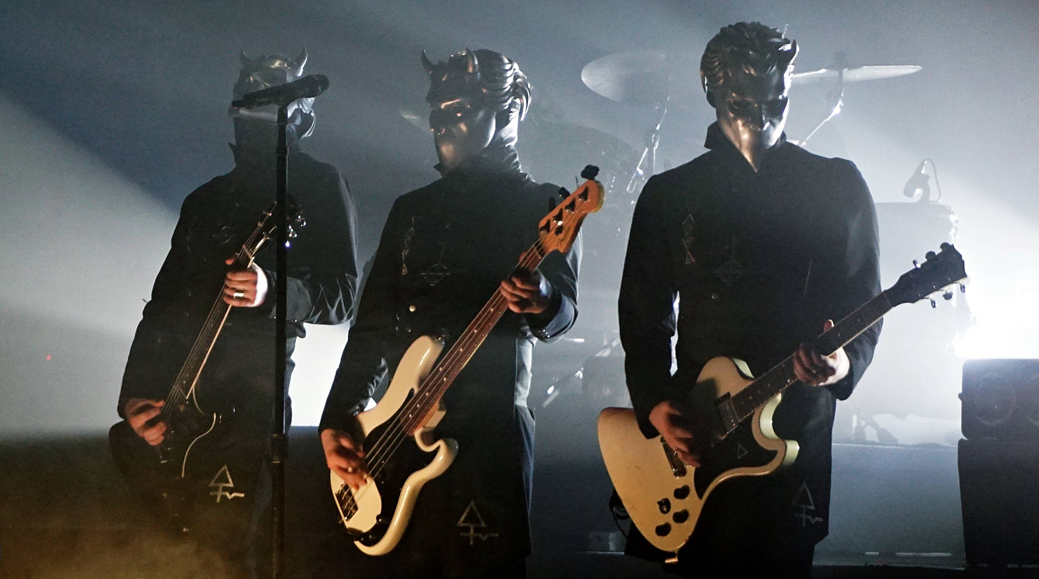 Ghost performing in Newcastle on December 16, 2015